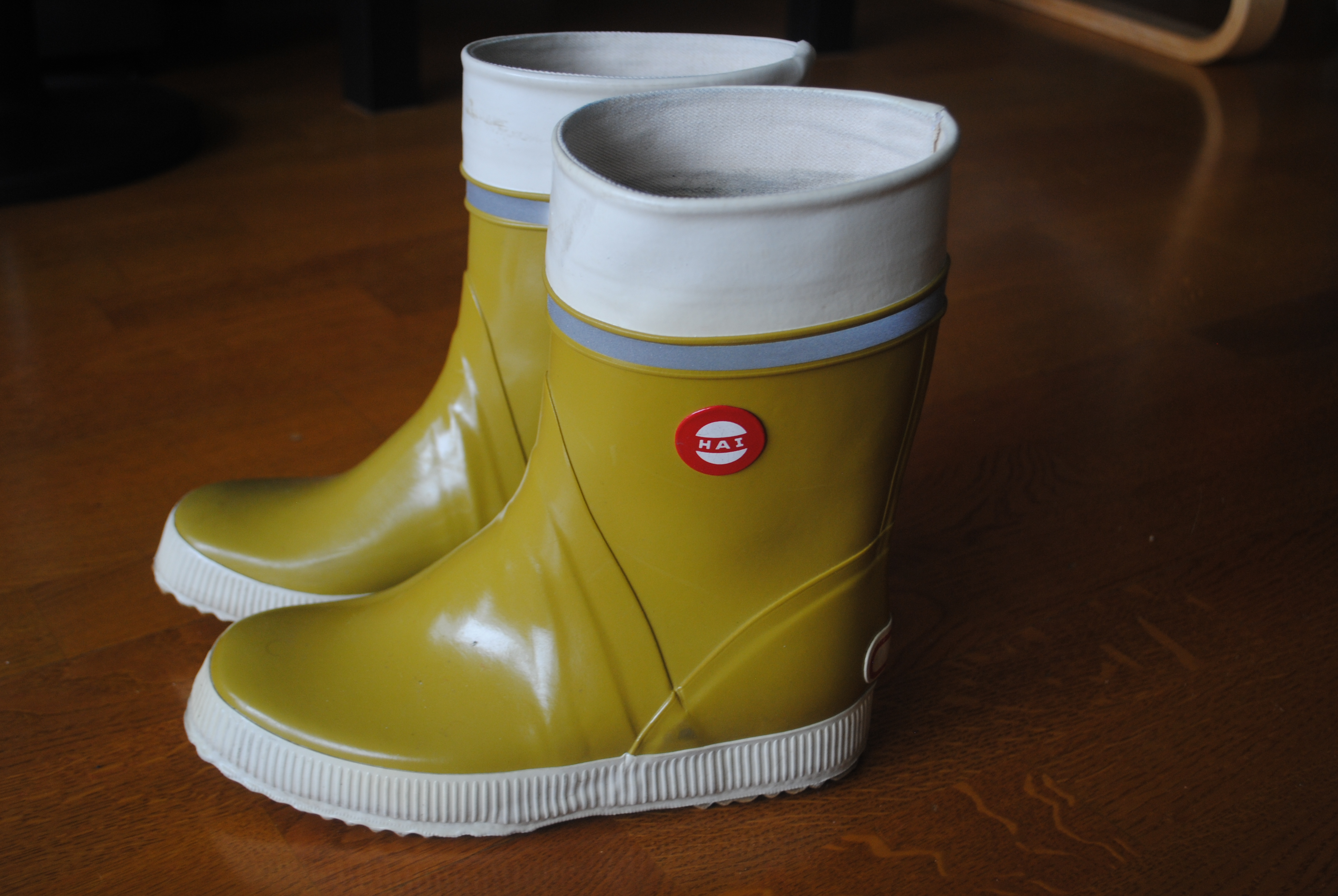 The Hai rubberboots from Finnish company Nokian Jalkineet (Nokian Footwear).